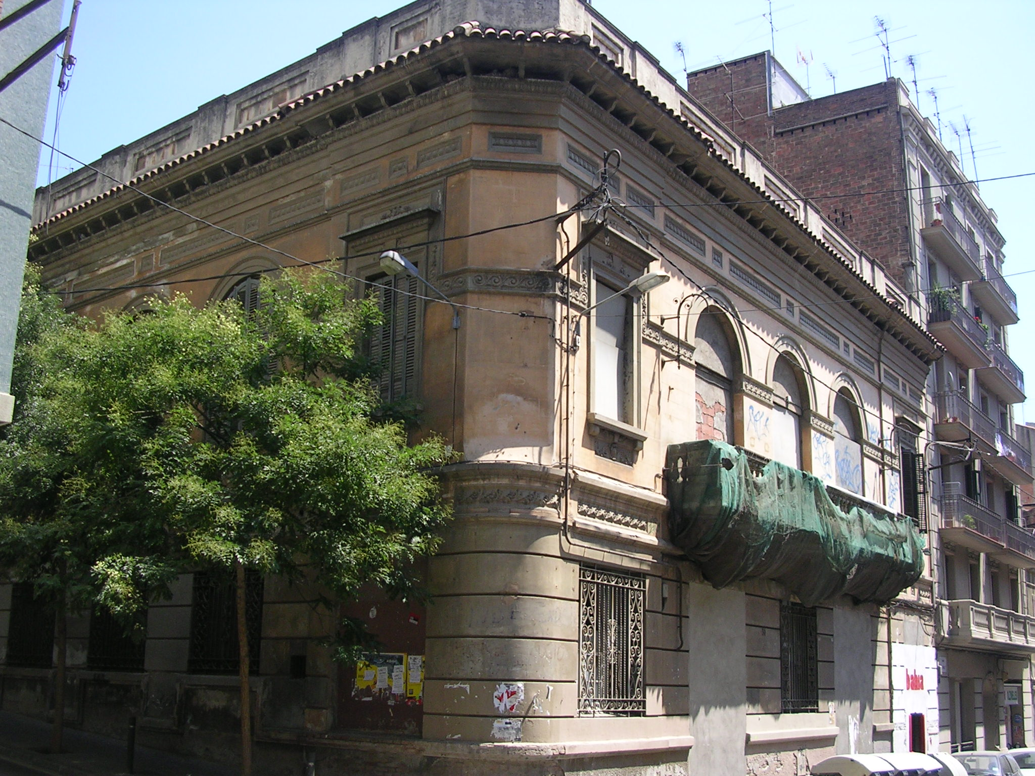 occupied house "Bahía" (or "Sala Bahía") in Barcelona-Sants; view of the fassade